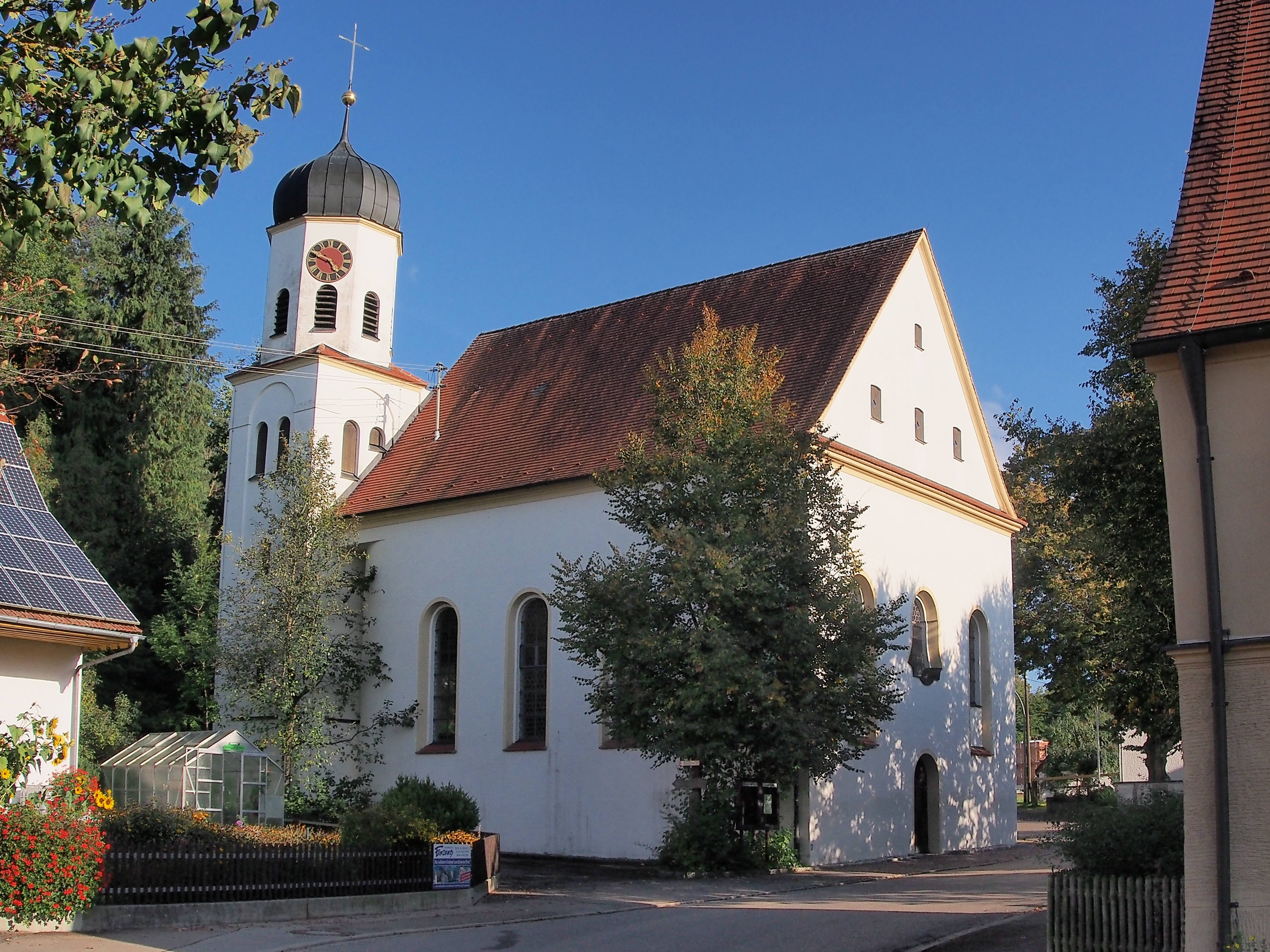 This is a photograph of an architectural monument.